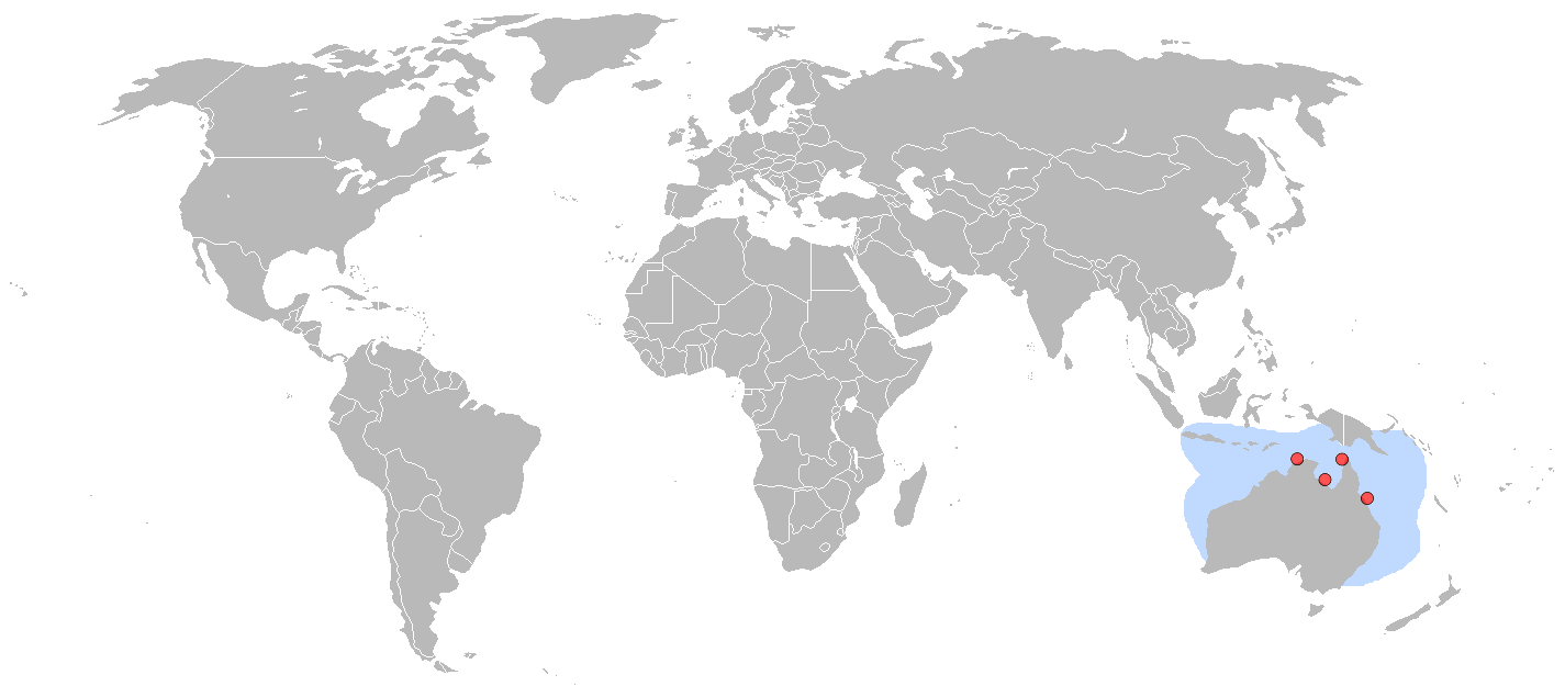 Nesting locations of flatback sea turtle (Natator depressus): red dot = major nesting locations, yellow dot = minor nesting locations.